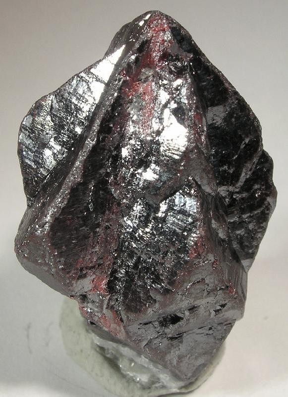 Cinnabar Locality: Tongren Mine, Wanshan District, Tongren Prefecture, Guizhou Province, China (Locality at ) Twinned cinnabar and a rich red color. This is a HUGE crystal. 3 x 2.1 x 1.6 cm